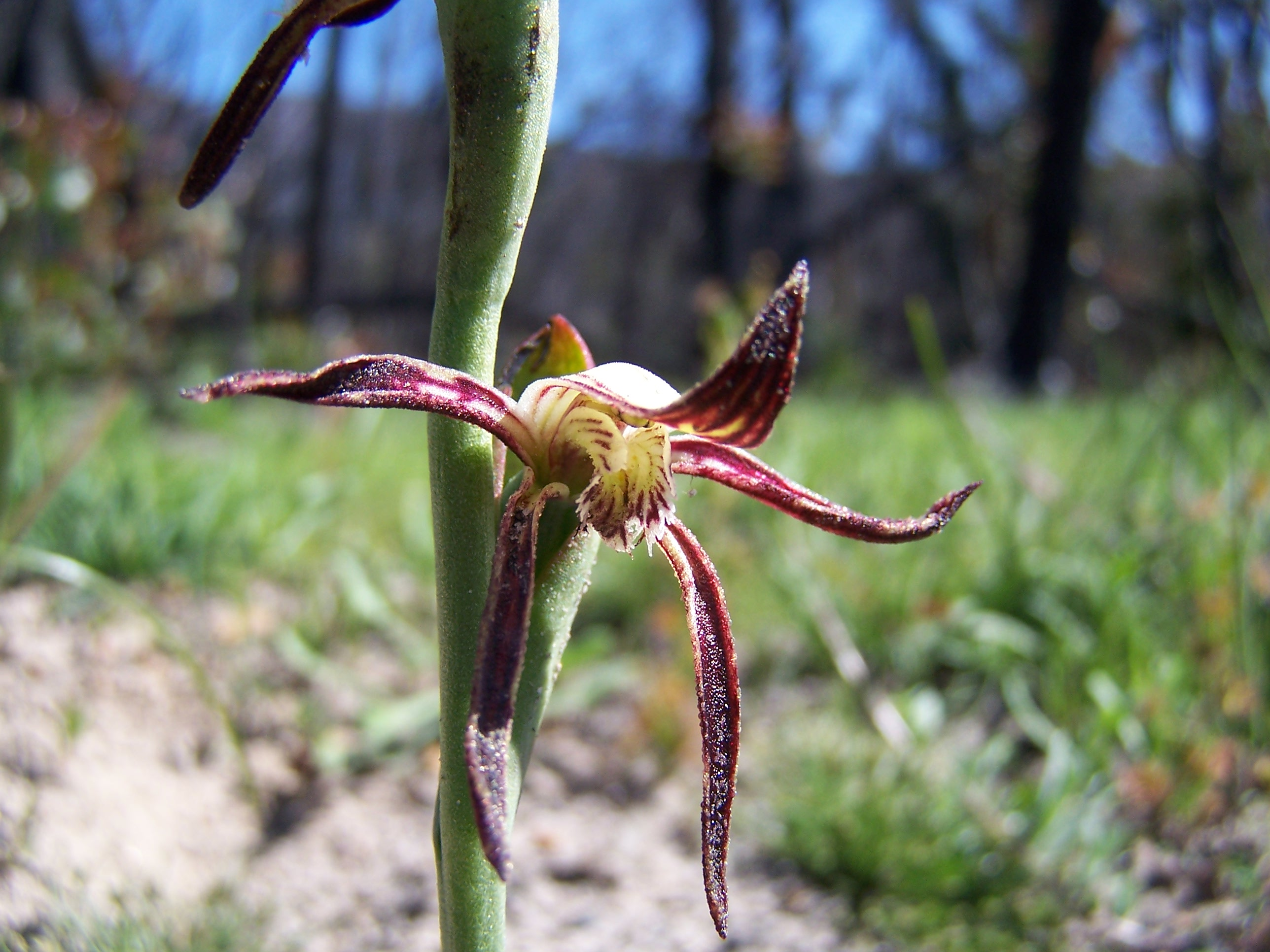 Australian orchid, the Undertaker Orchid, or Redbeaks (Pyrorchis nigricans)